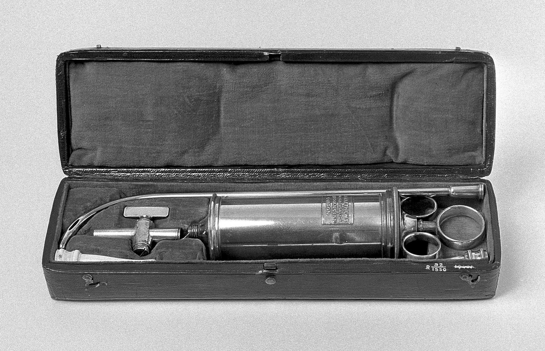 White metal syringe, with metal urethral tube and bone rectal tube; enamel(?). Wellcome Images Keywords: Syringes